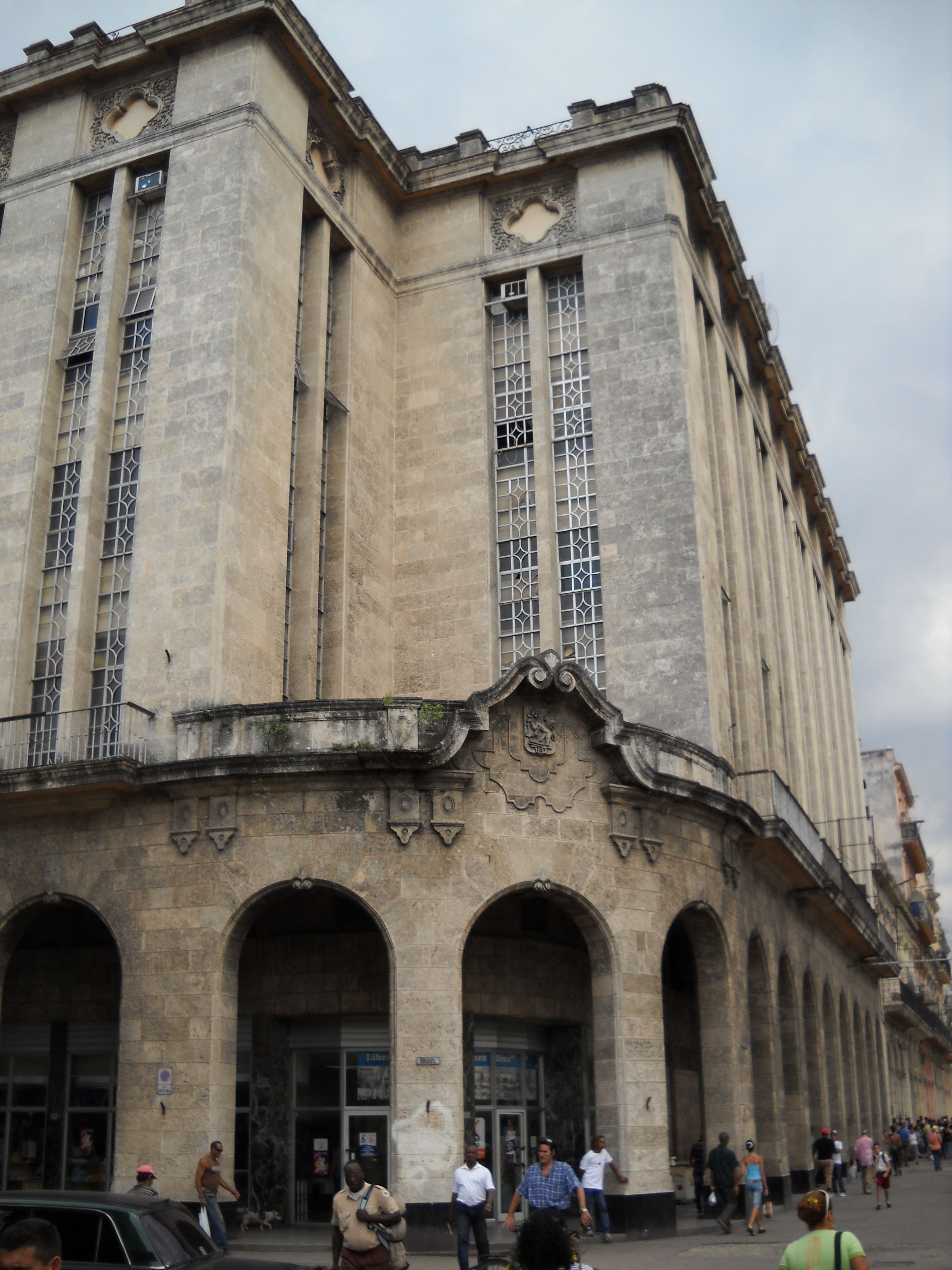 Dario de la marina building in 2009 on Prado in Havana Cuba